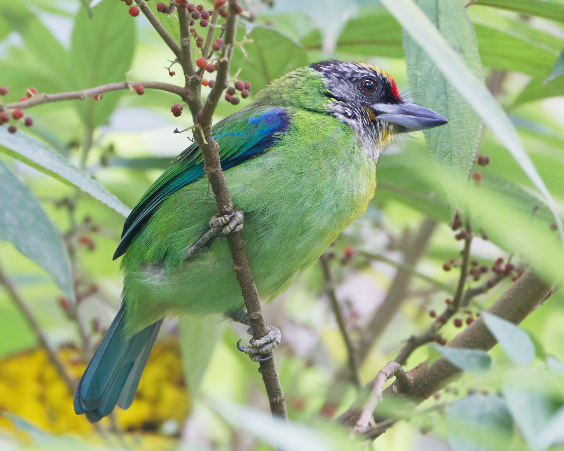 Golden-throated Barbet (Megalaima franklinii), Mae Wong National Park, Nakhon Sawan, Thailand